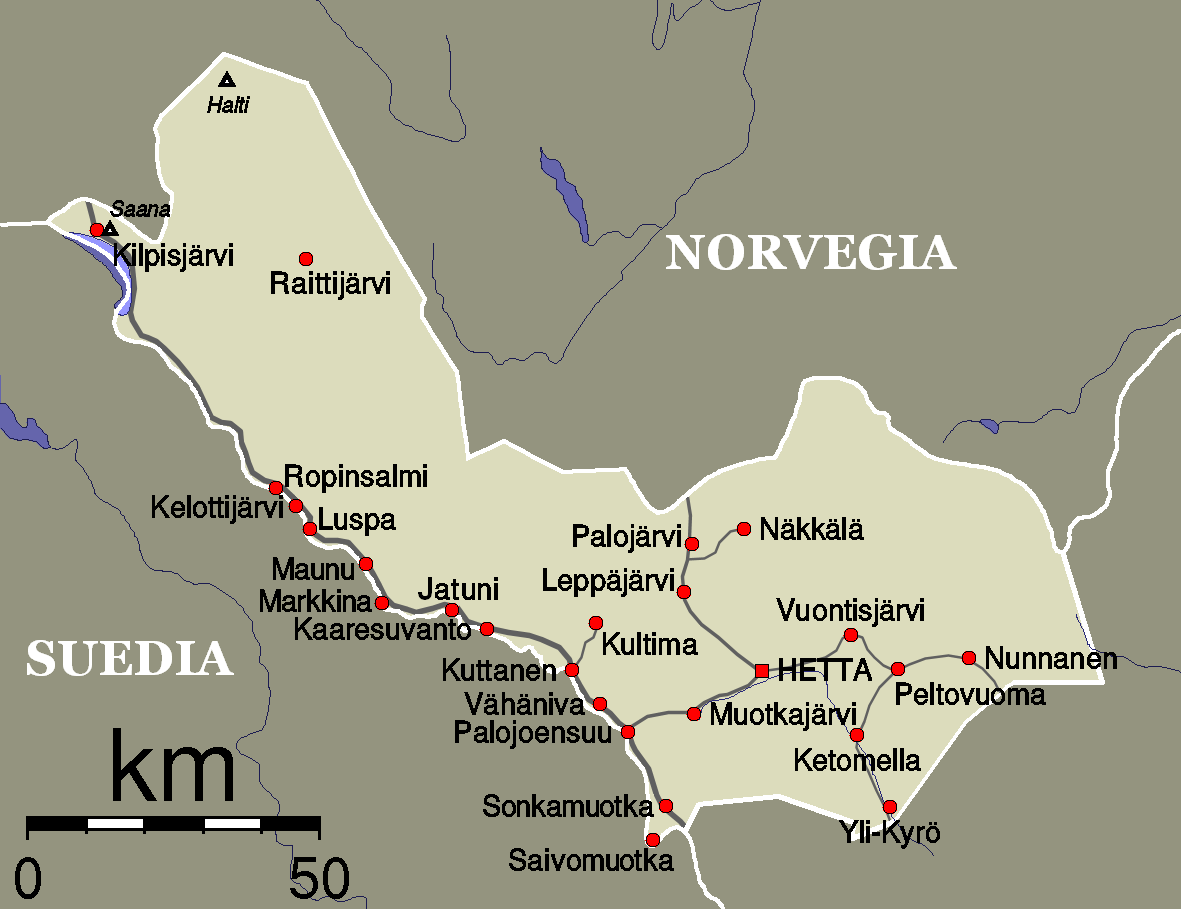 Map of Enontekiö, Finland in Basque